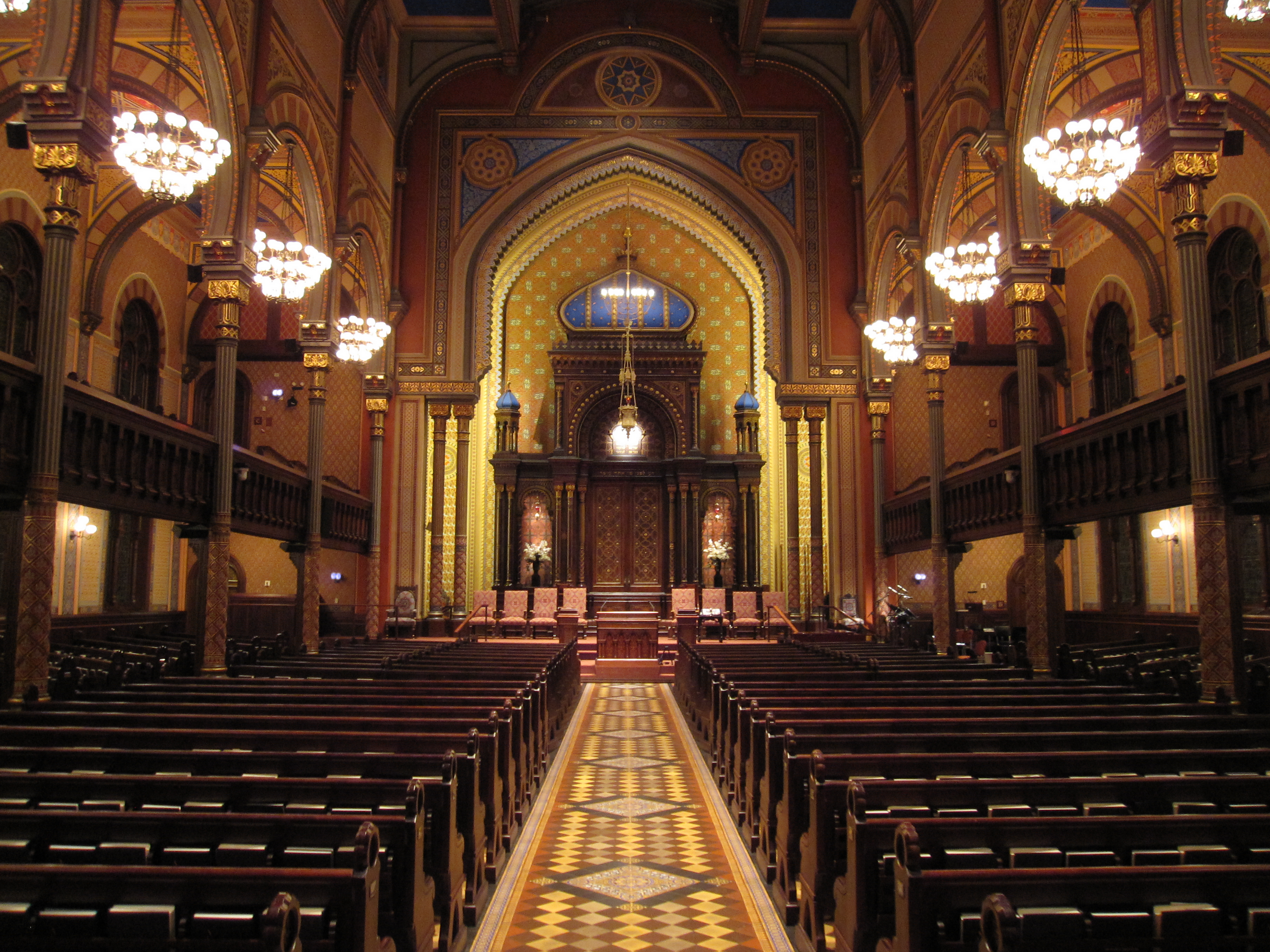 Central Synagogue on Lexington Avenue in New York.